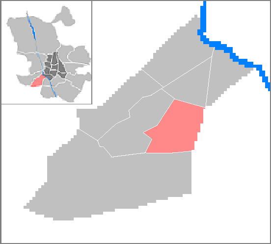 ABrantes quarter in Madrid